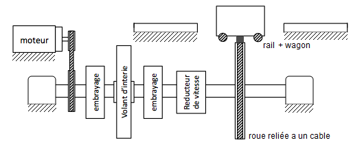 Launched roller coaster explanation